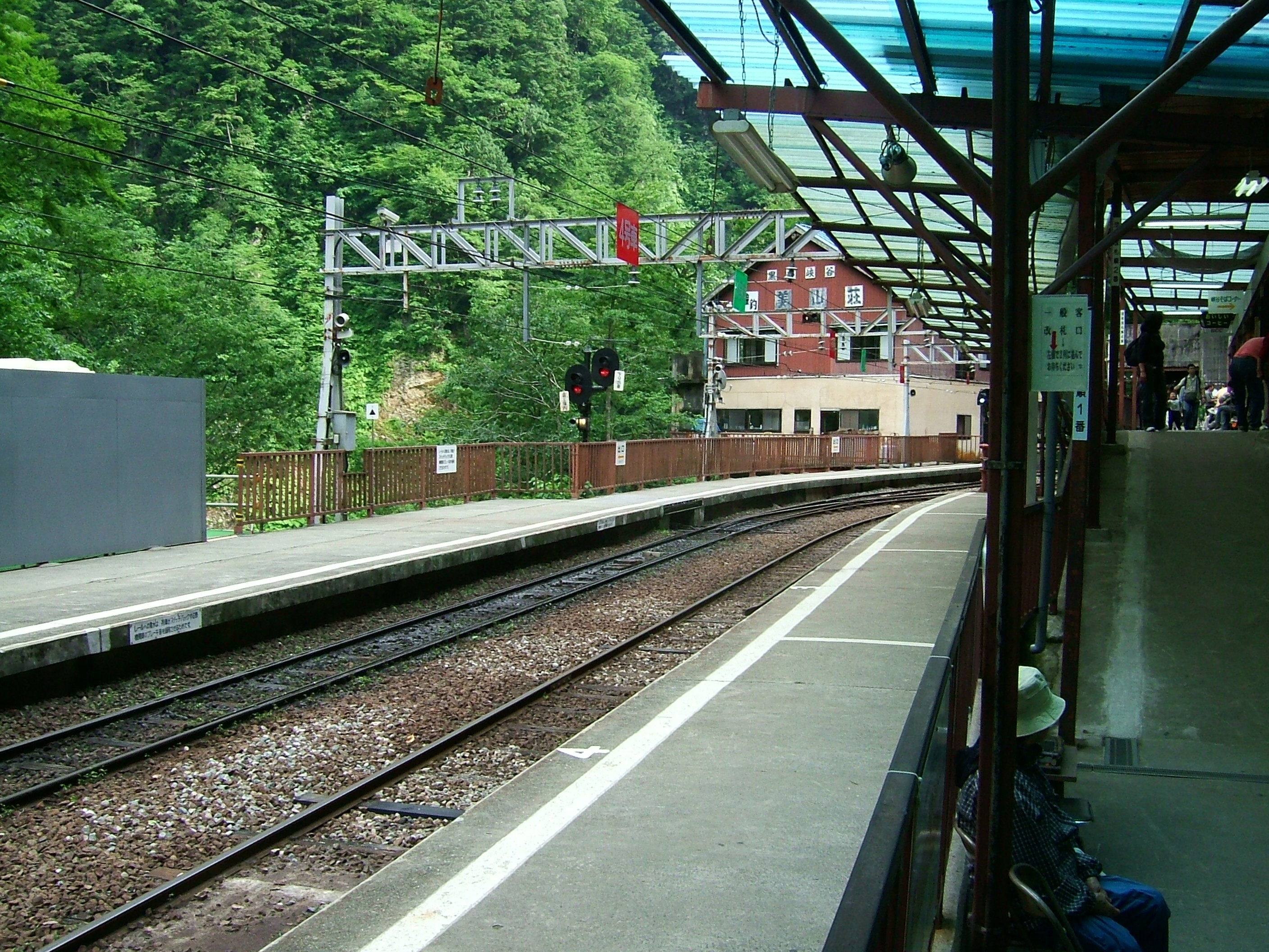 The platforms at Kanetsuri station on the Kurobe Gorge Railway Main line